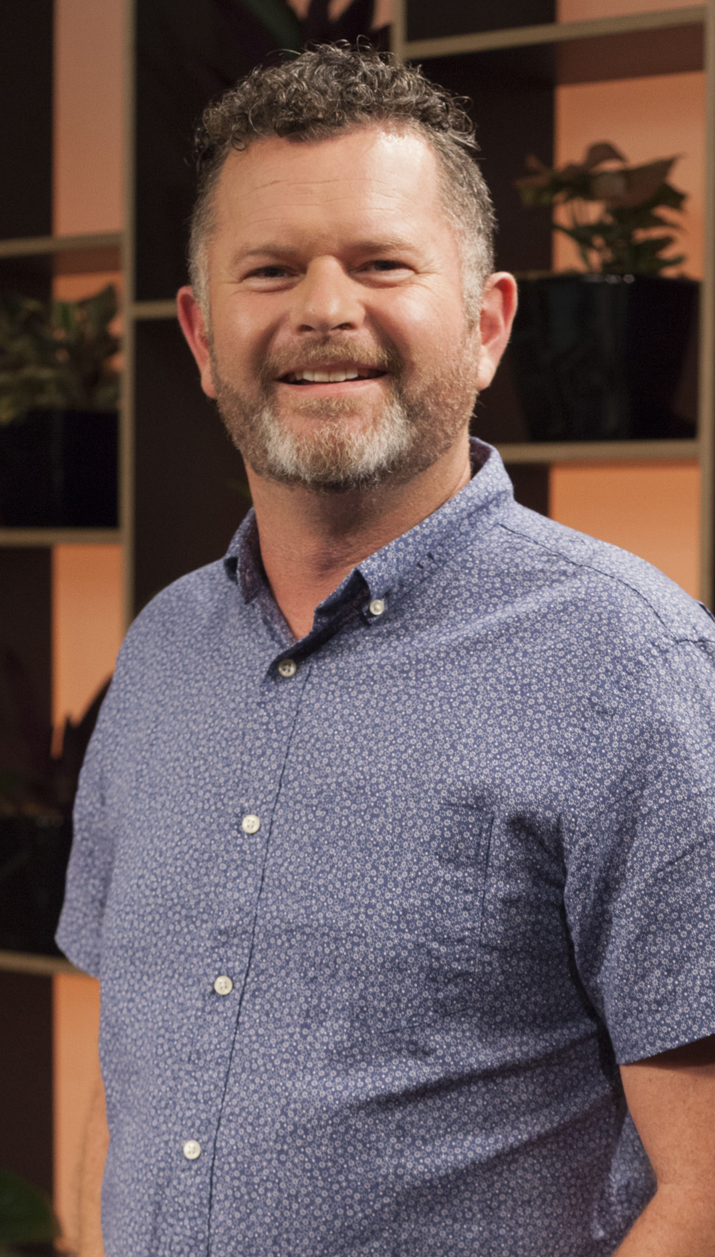 New Zealand Celebrity Builder - Guest on The Cafe TV Show